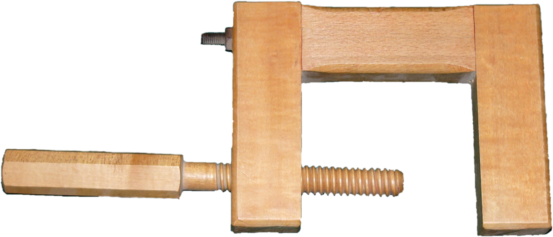 Carpenter's C-clamp of beech wood